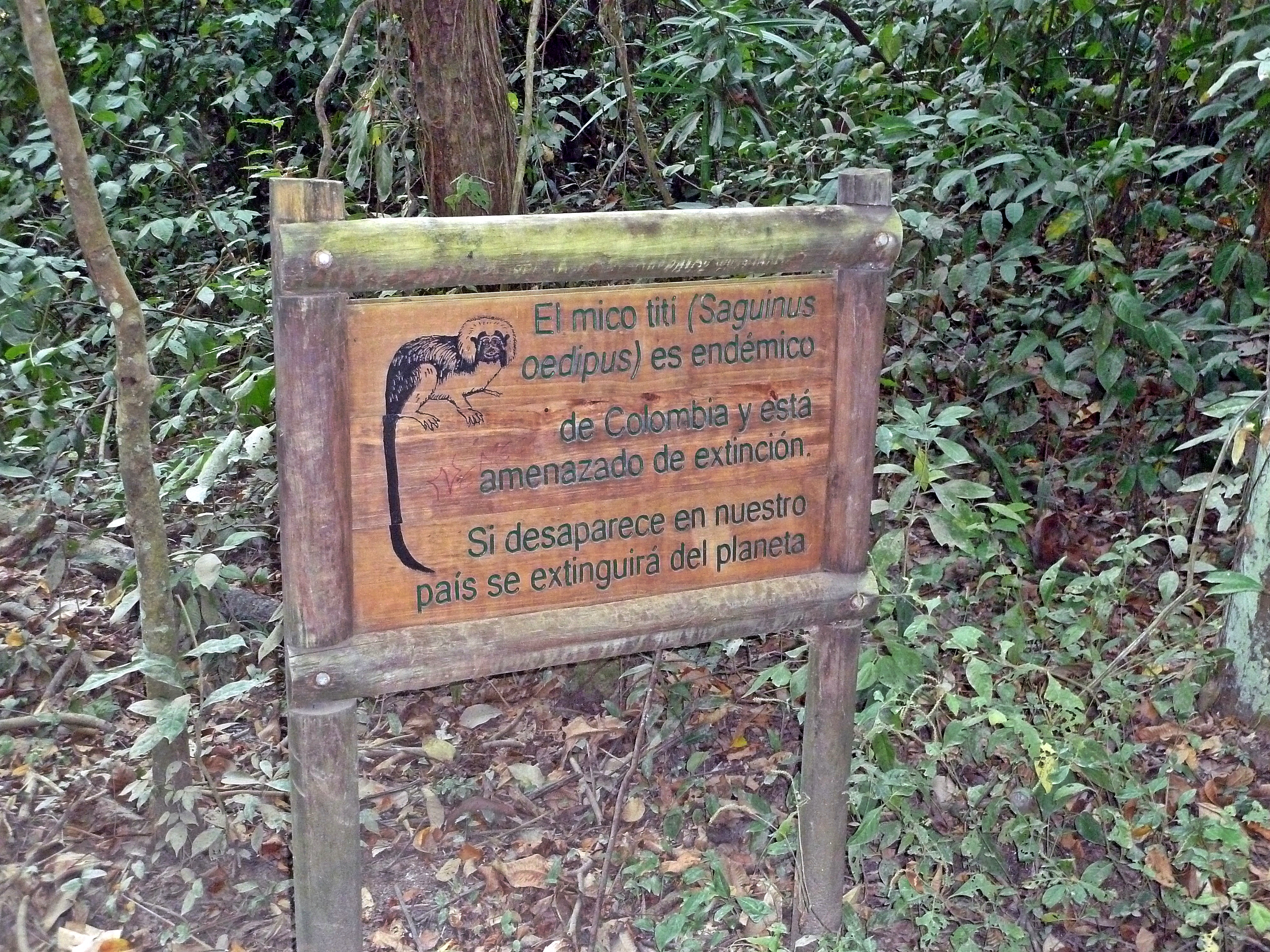 A sign pointing out the endangered status of the cotton-top tamarin, which is only found in this part of the world.